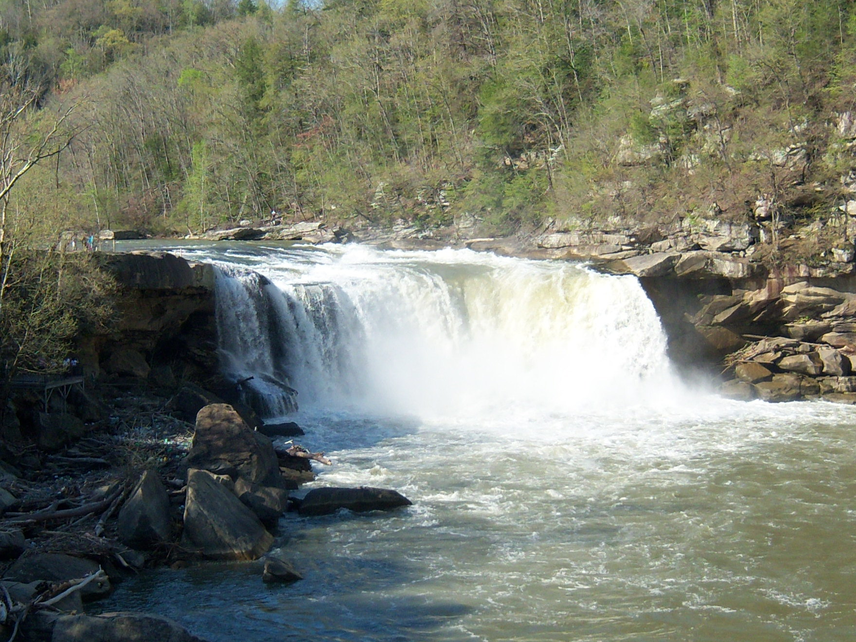 A view of Cumberland Falls in Whitley County, Kentucky.